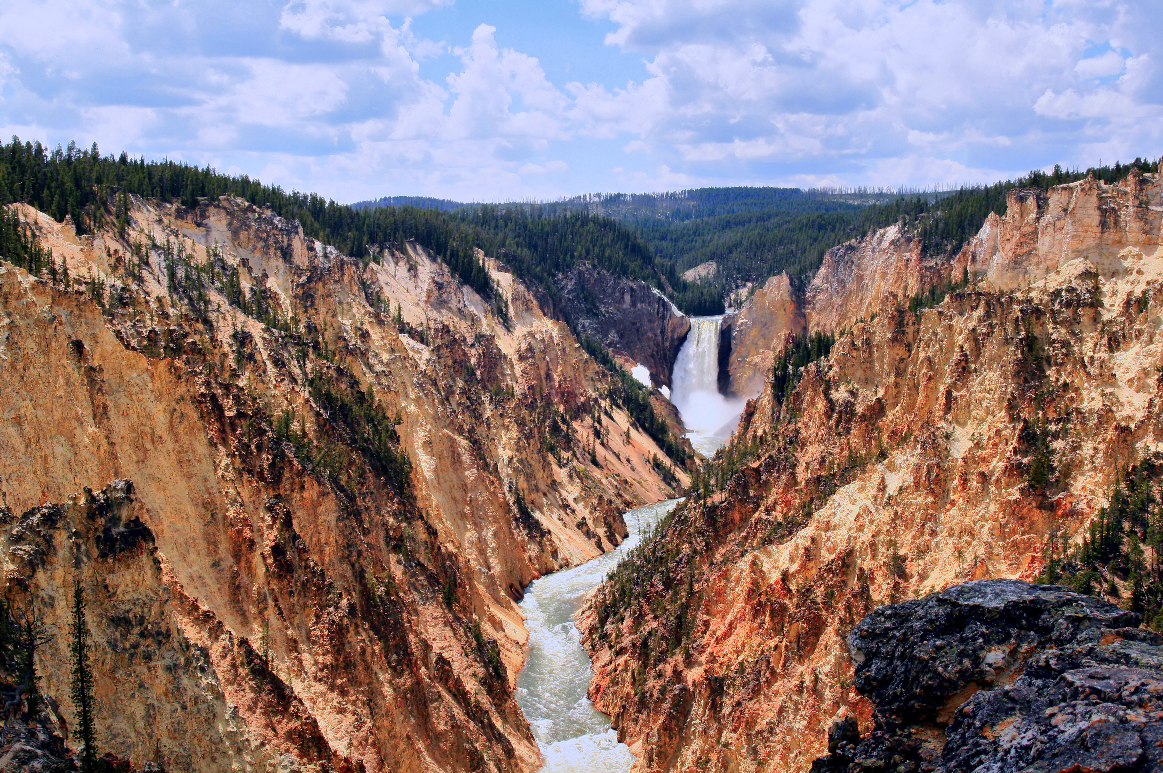 Grand Canyon and Yellowstone Fall at Yellowstone National Park. The canyon is up to 900 feet deep (275 m) and a half mile (0.8 km) in width. The canyon below the Lower Yellowstone Falls was at one time the site of a geyser basin that was the result of rhyolite lava flows, extensive faulting, and heat beneath the surface (related to the hot spot). The rhyolite in the canyon contains a variety of different iron compounds. Exposure to the elements caused the rocks to change colors. The rocks are, in effect, oxidizing; the canyon is rusting. The colors indicate the presence or absence of water in the individual iron compounds. Most of the yellows in the canyon are the result of iron present in the rock rather than sulfur.